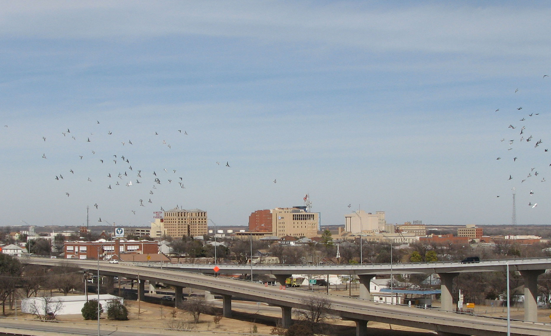 Skyline of downtown Wichita Falls, Texas, United States